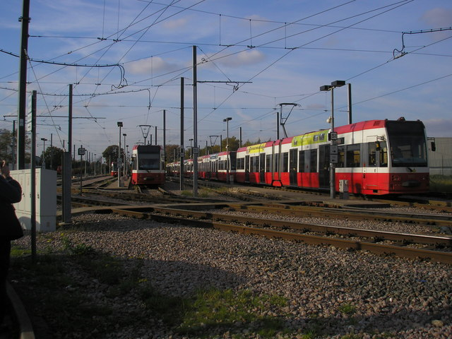 Depot Yard, Therapia Lane Tram Depot, Croydon The trams spend the night in the open air, as there is only covered accommodation for about four out of the fleet of 23.